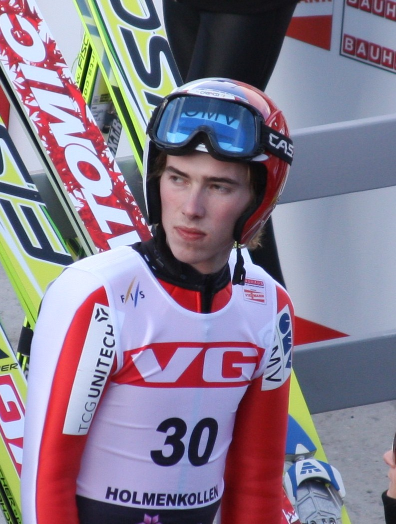 Antonin Hajek (CZH) after WC tournament in Holmenkollen, Oslo 2010